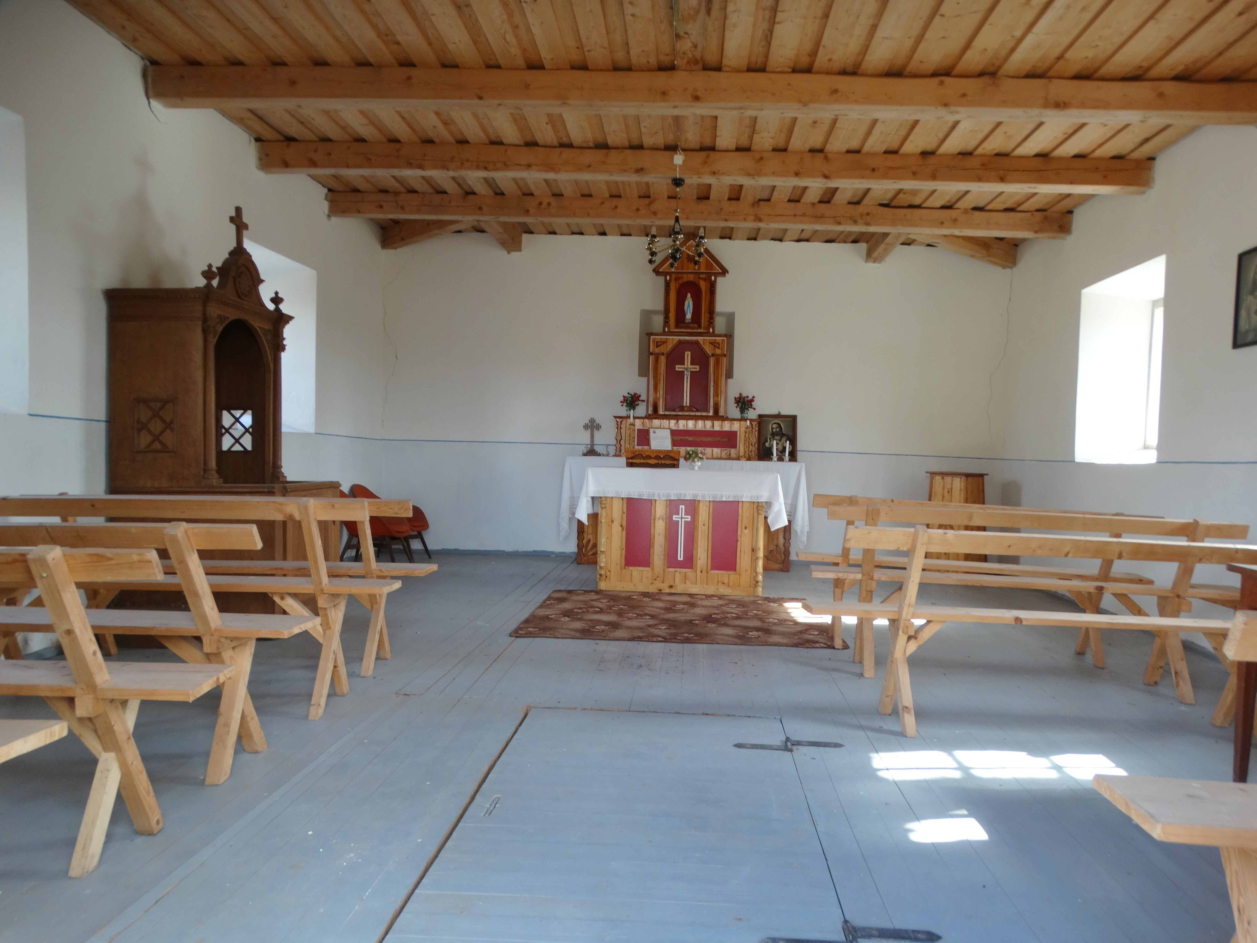 Papšiai Chapel, Anykščiai District, Lithuania